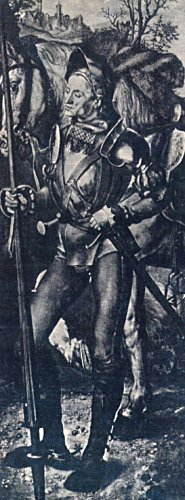 Albrecht Dürer: Paumgartner Altar - right wing. Before restavration, with painting over made in 1614 сю